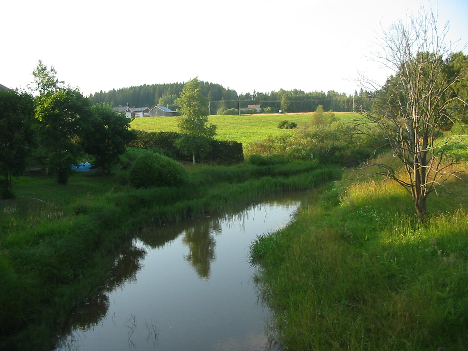 River Virkaanjoki in Somero, Finland